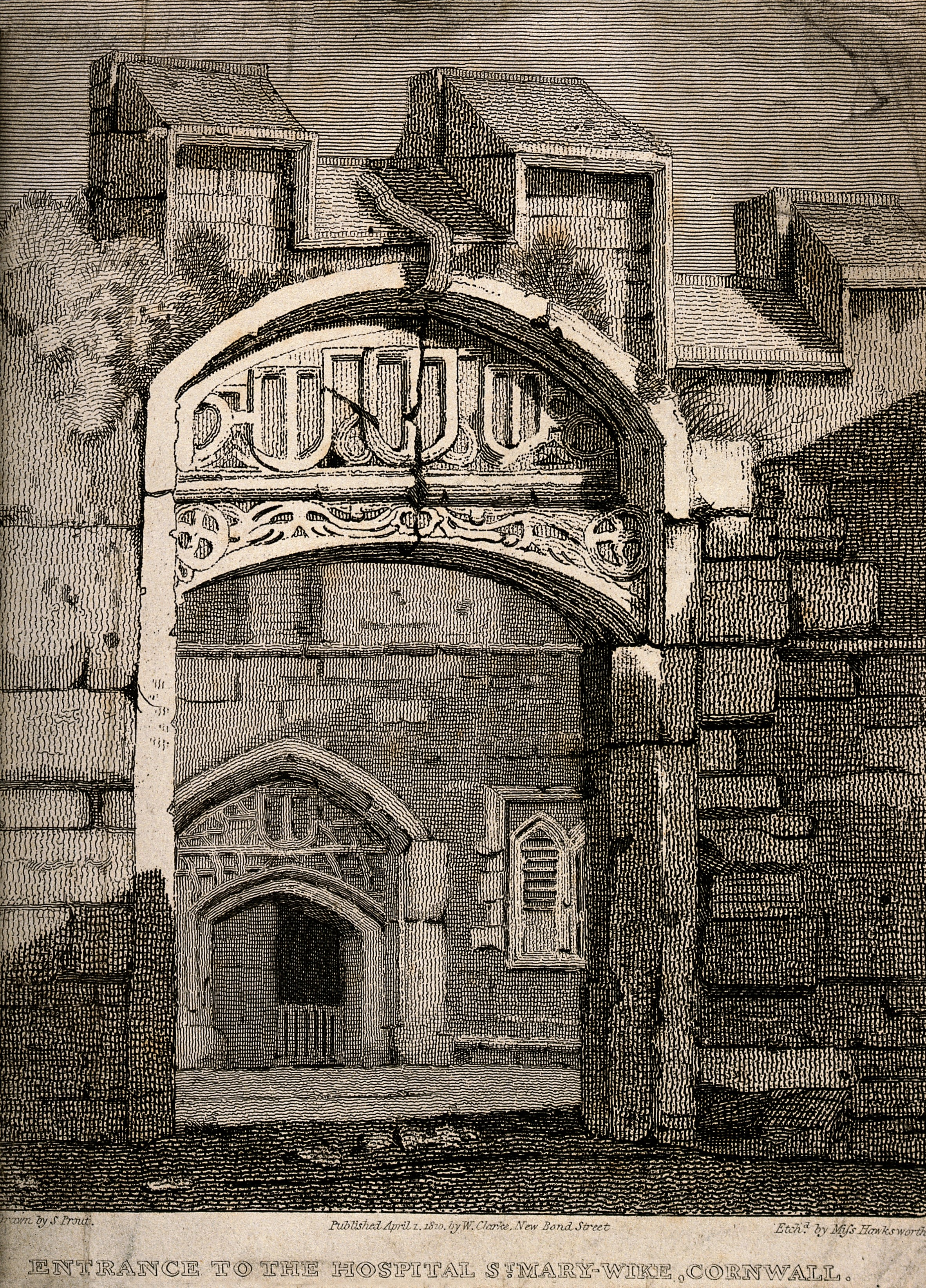 Entrance to the Hospital, St. Mary-Wike, Cornwell. Etching by Hawksworth , 1810, after S. Prout. Iconographic Collections Keywords: J. Hawksworth; Samuel Prout